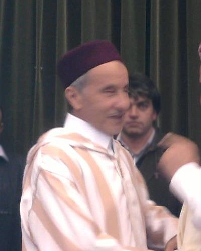 Reception Mustafa Abdul Jalil National Interim President of the Council of the Egyptian delegation, Bayda - Libya on 12/10/2011.